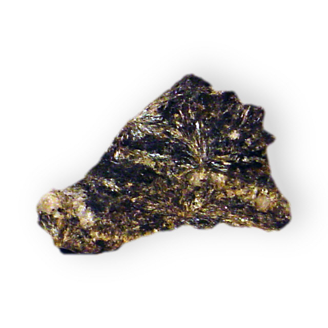 These mineral images are free to use how you wish.